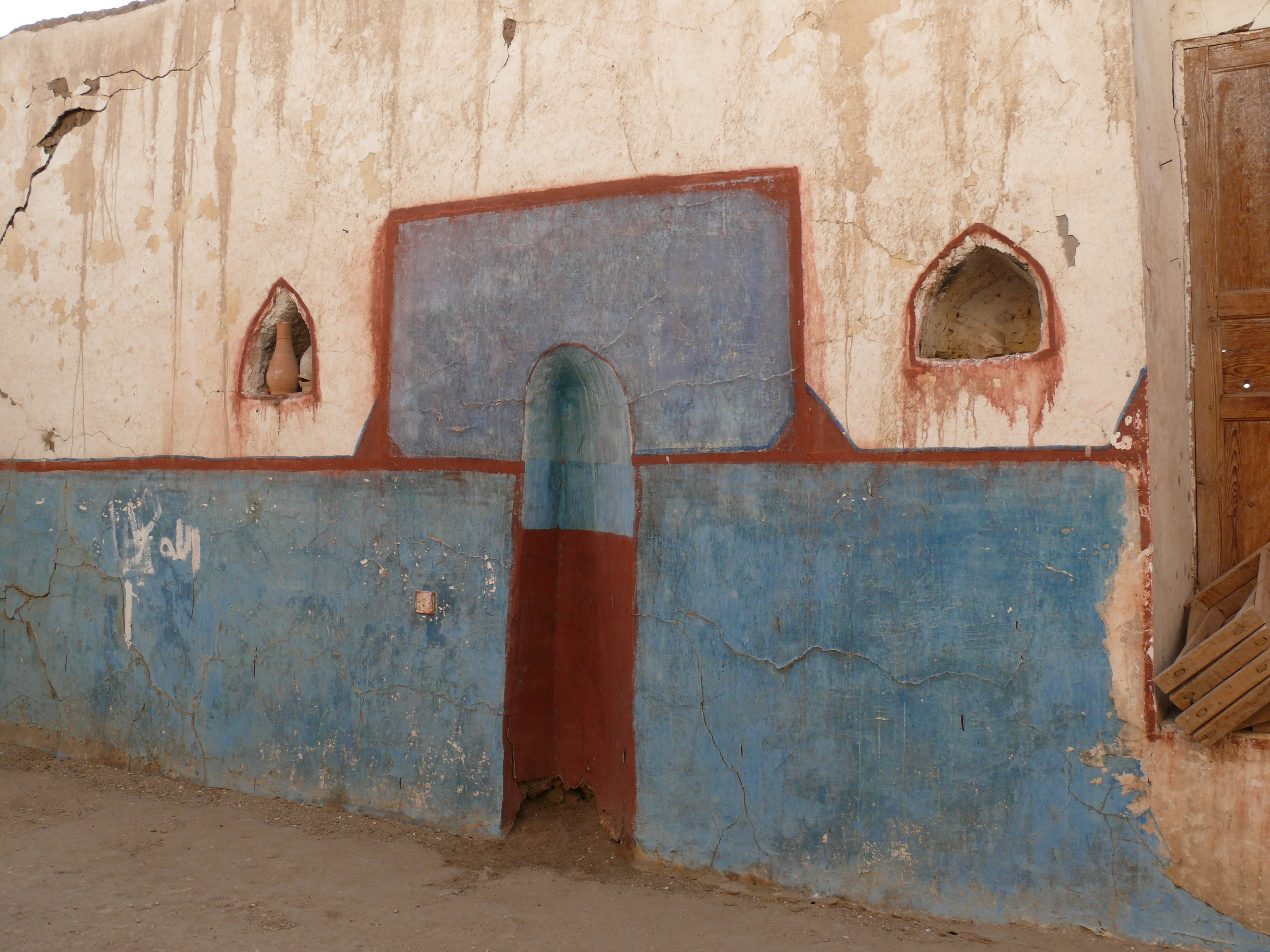 Sheikh Abd el-Qurna, Egypt